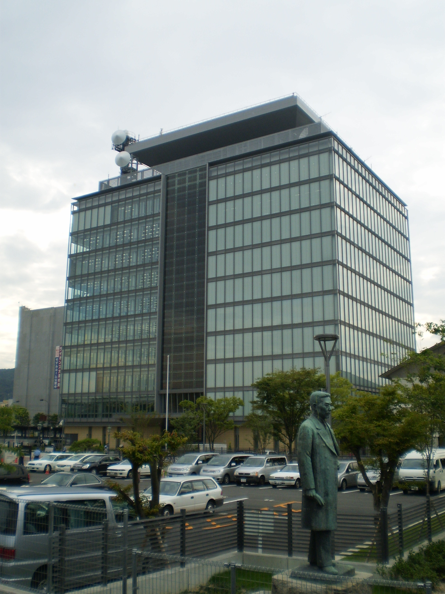 Shiga Prefectural Police Headquarters. I took this image at Uchidehama Otsu City Shiga Pref., Japan.